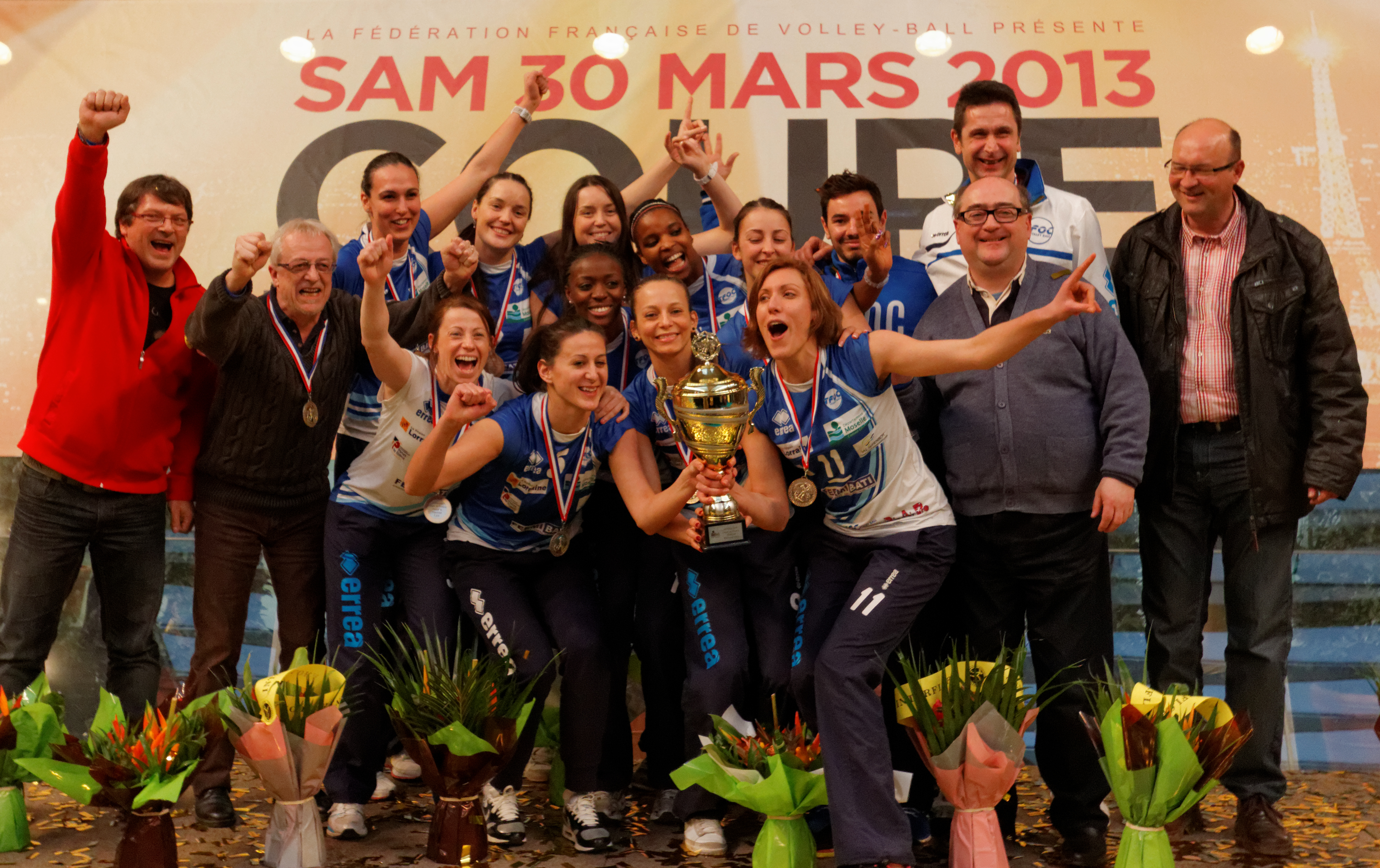 Final of the Volleyball French Cup, Vannes Volley-Ball - Terville Florange Olympique Club, March 30, 2013.